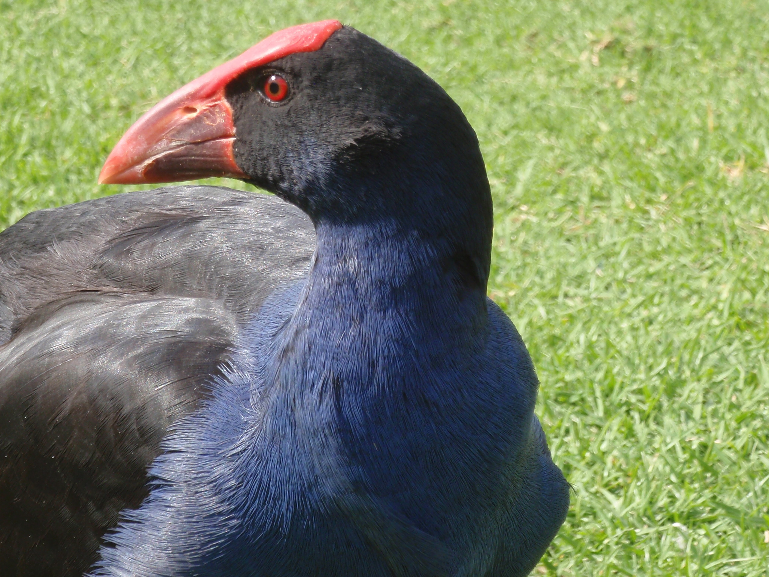 Purple Swamphen. Nature reserve at Macquarie University NSW Australia.